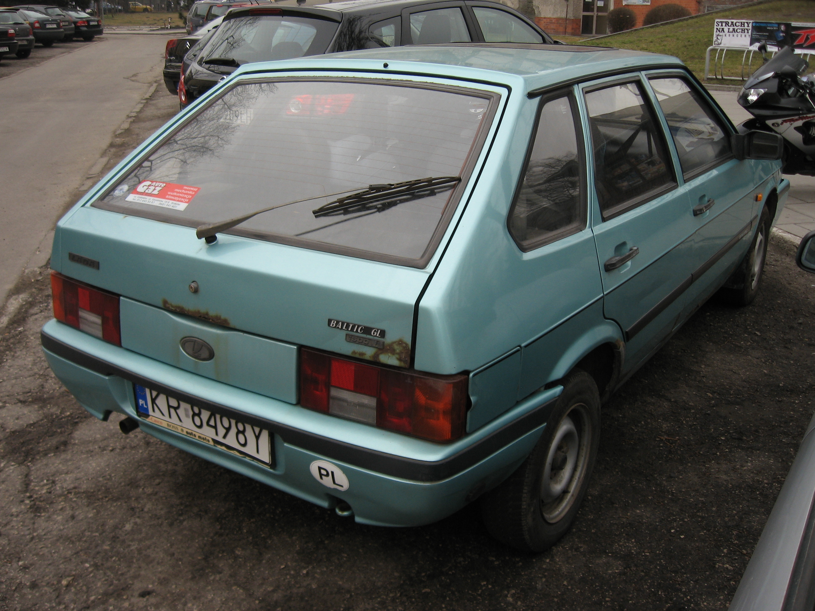 Lada Samara Baltic GL 1500 I in Kraków.